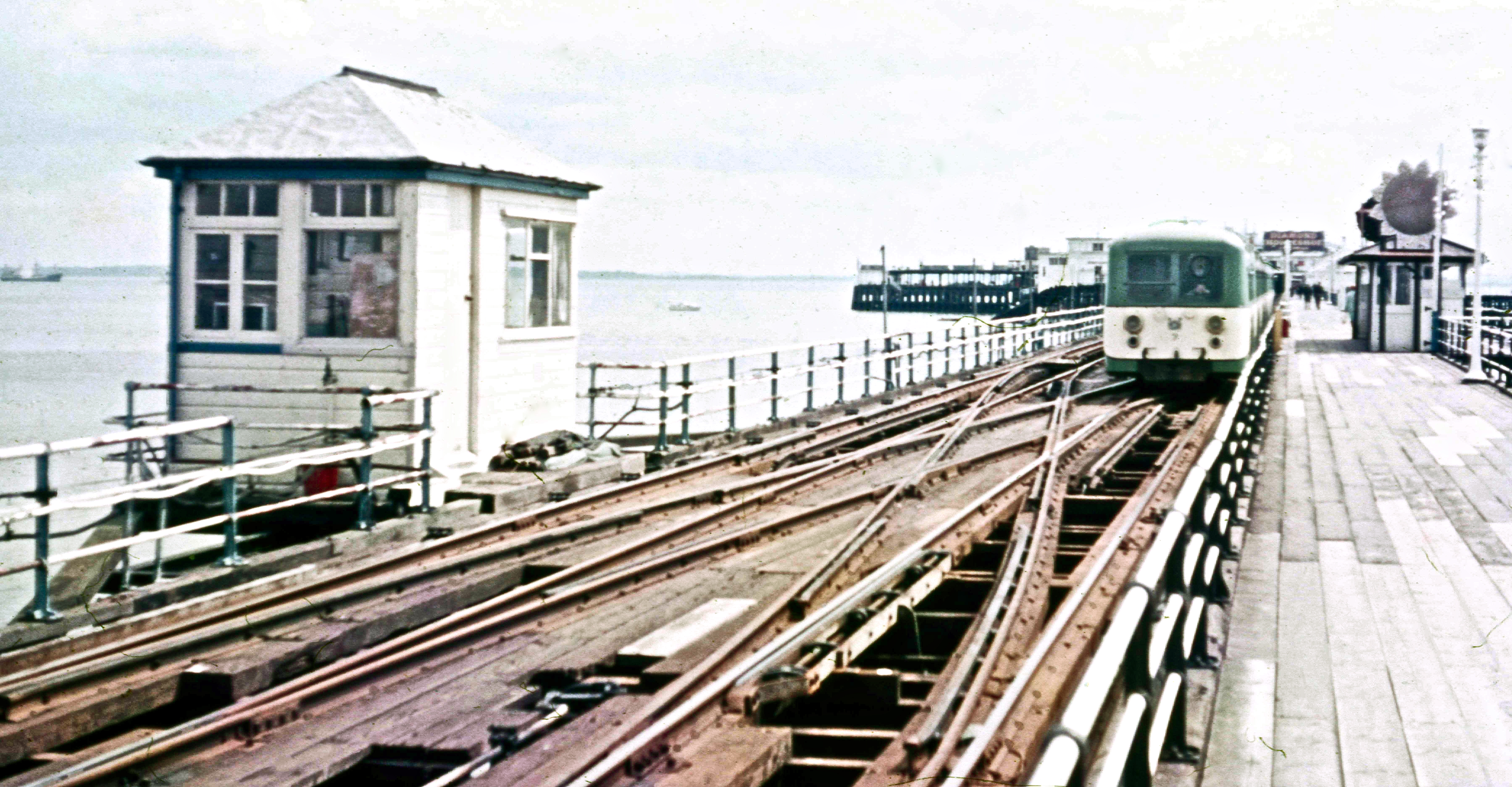 signalbox and train in 1972